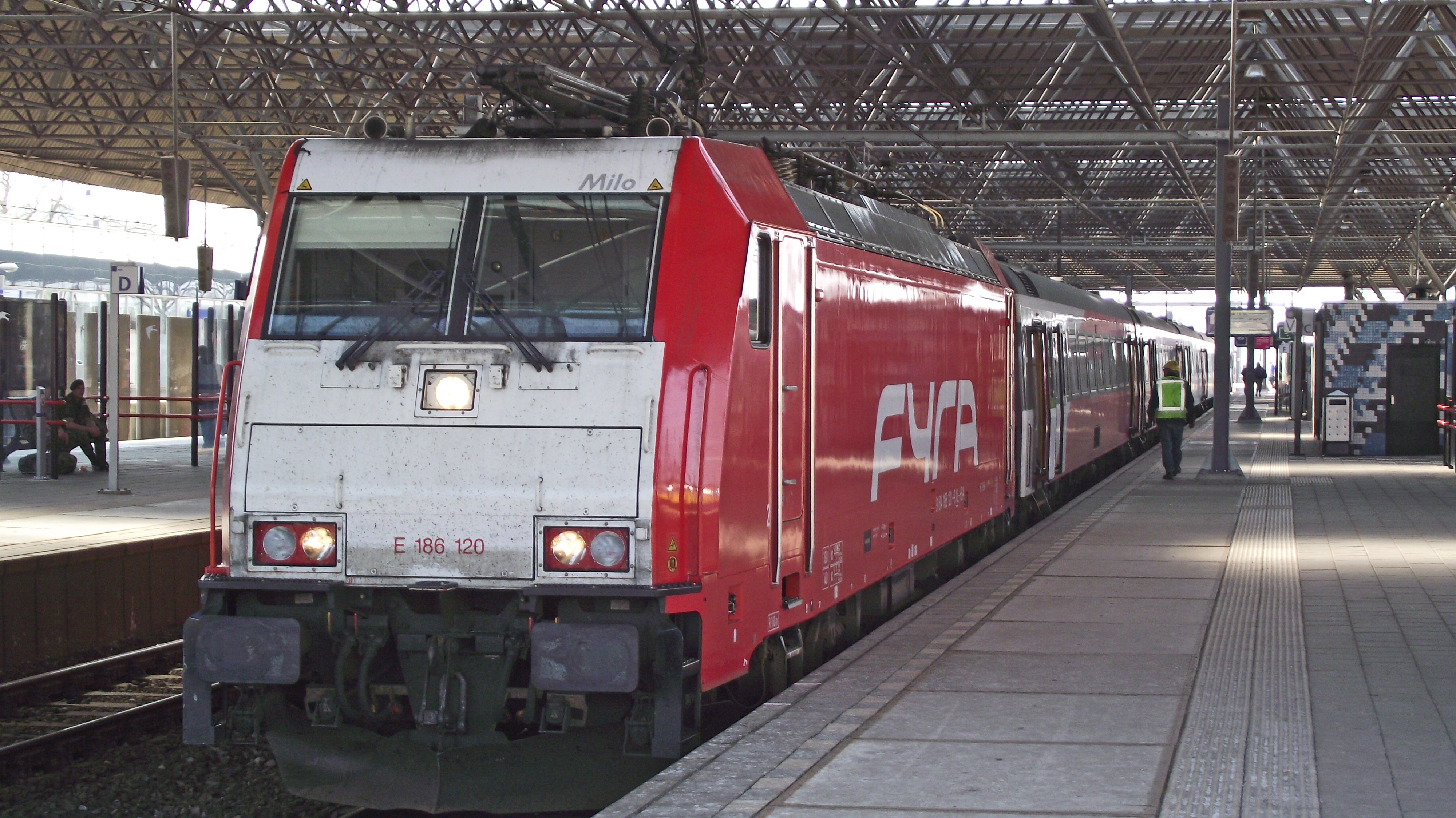 Fyra trein terminating in Breda station